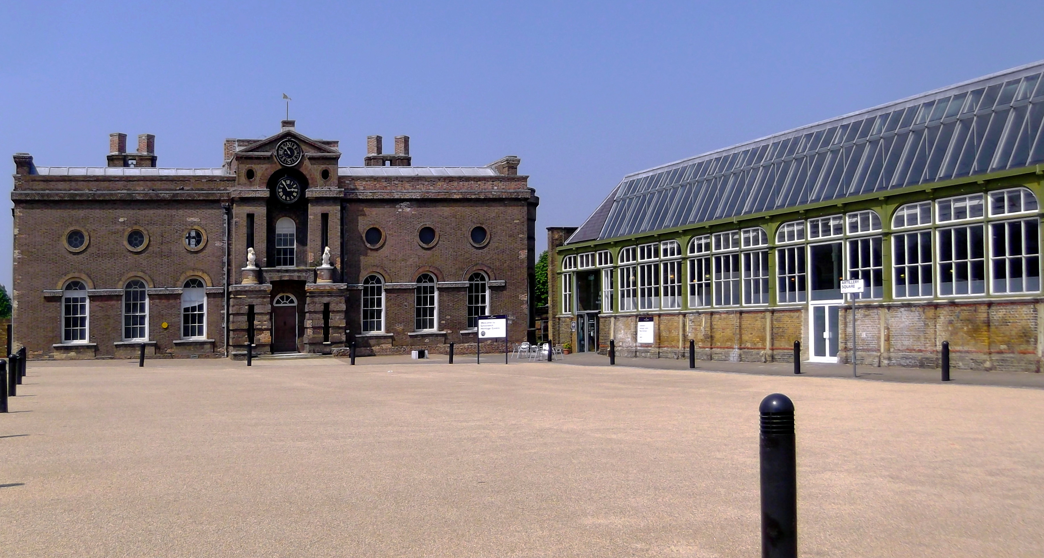 Royal Arsenal Woolwich London 039